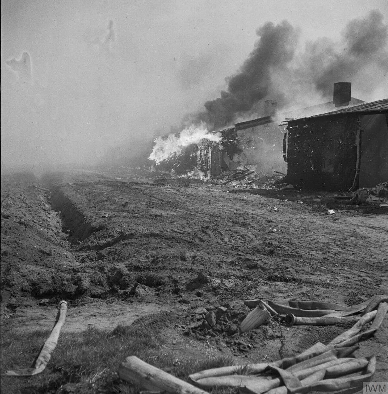 The Liberation of Bergen-belsen Concentration Camp, May 1945 The burning of the huts at Belsen. After each hut had been cleared, it was burned down by flame throwers to prevent the spread of disease.